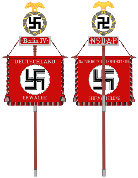 The Berlin Standard of the NSDAP